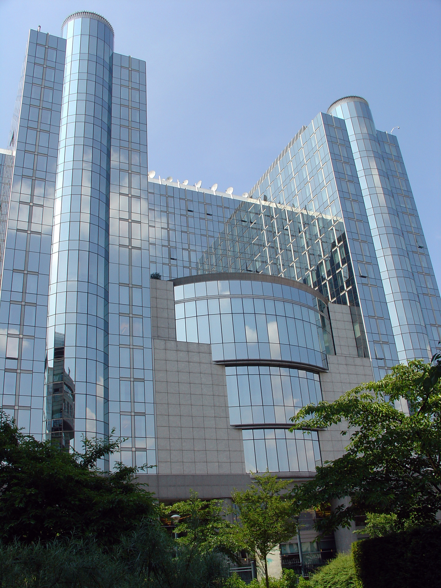 Building of Europarlament in Brussels